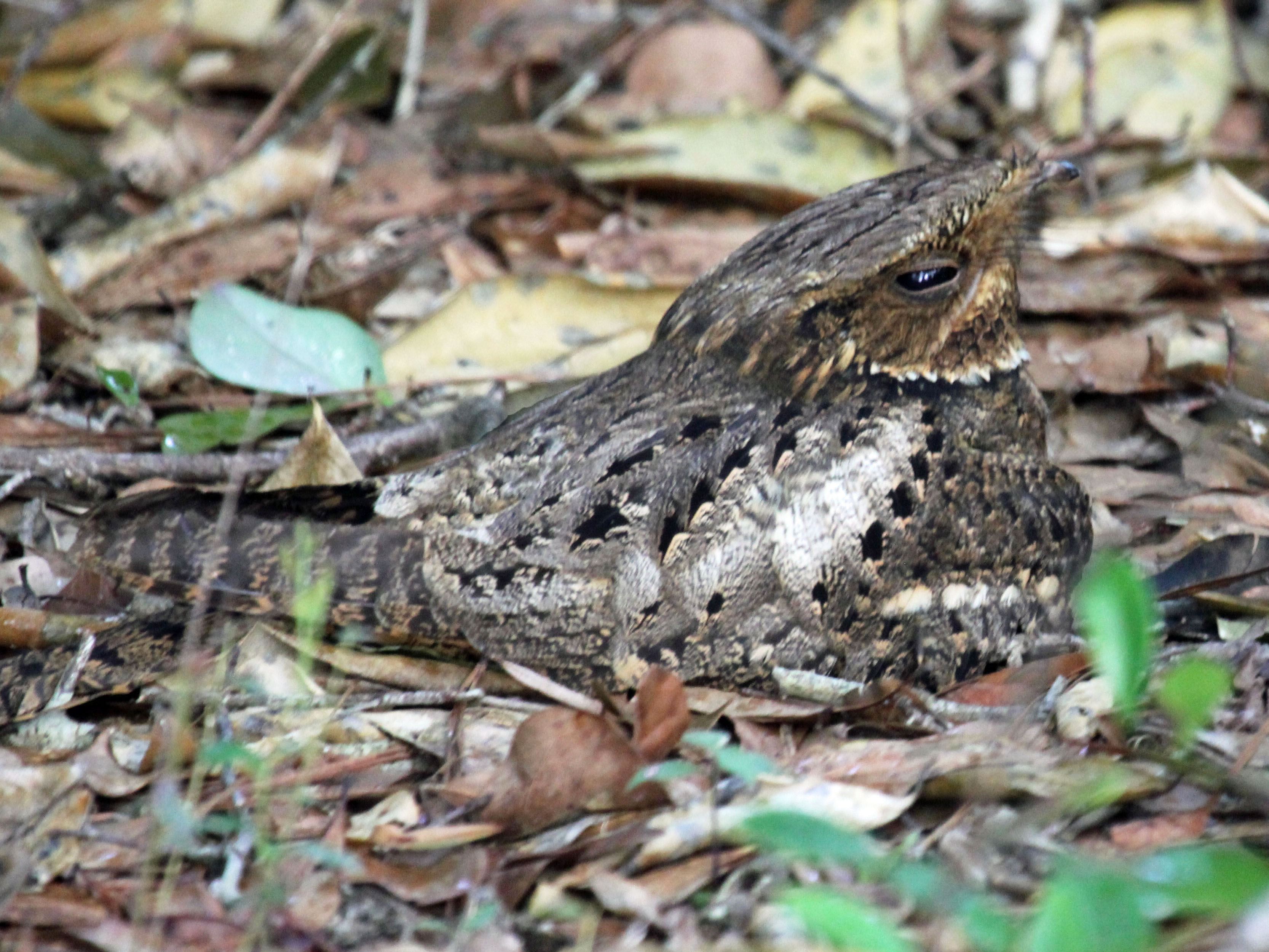 Chuck-will's-widow (Caprimulgus carolinensis) in Exum, North Carolina. Chuck-will's-widows has amazing camouflage.